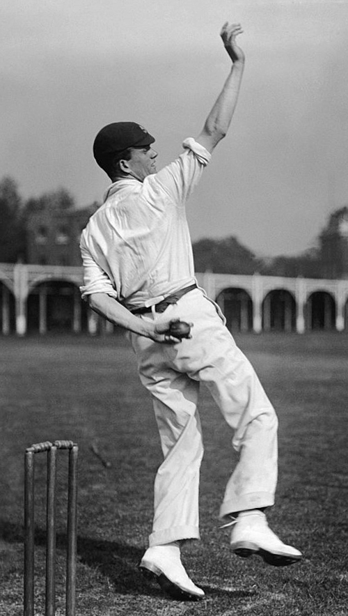 Colin Blythe, Kent and England, circa 1905.